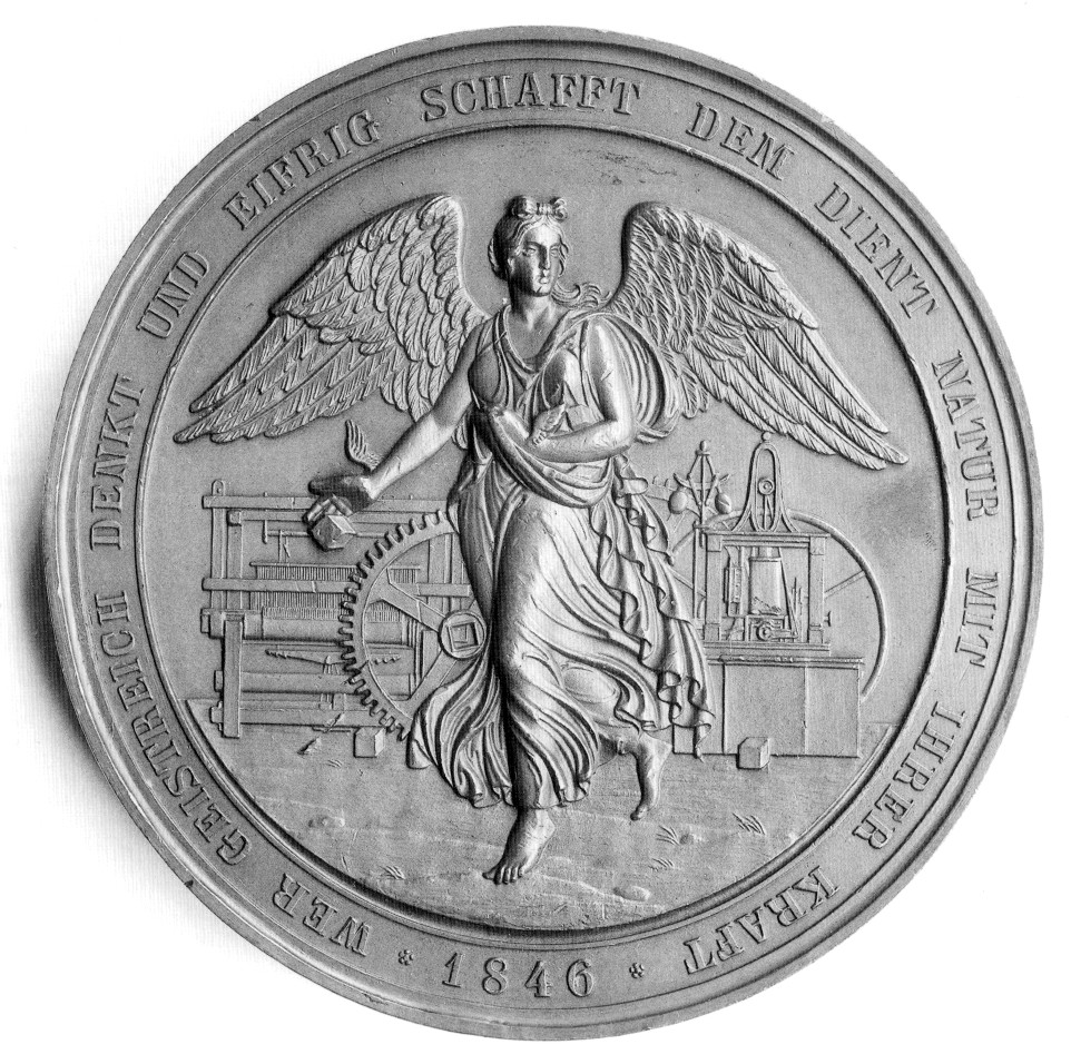 Bronze-medal in honour of Christian Peter Wilhelm Beuth. Reverse side.